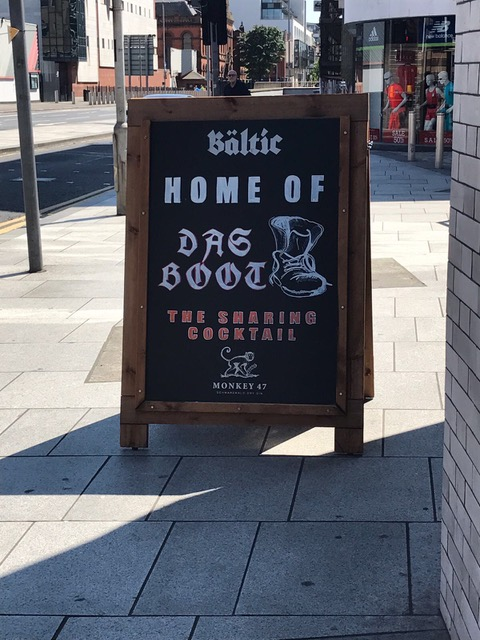 Das Boot mocks the German language for English speaking marketing purposes as "boot" does not translate into a type of footwear but actually translates to 'boat' in English.